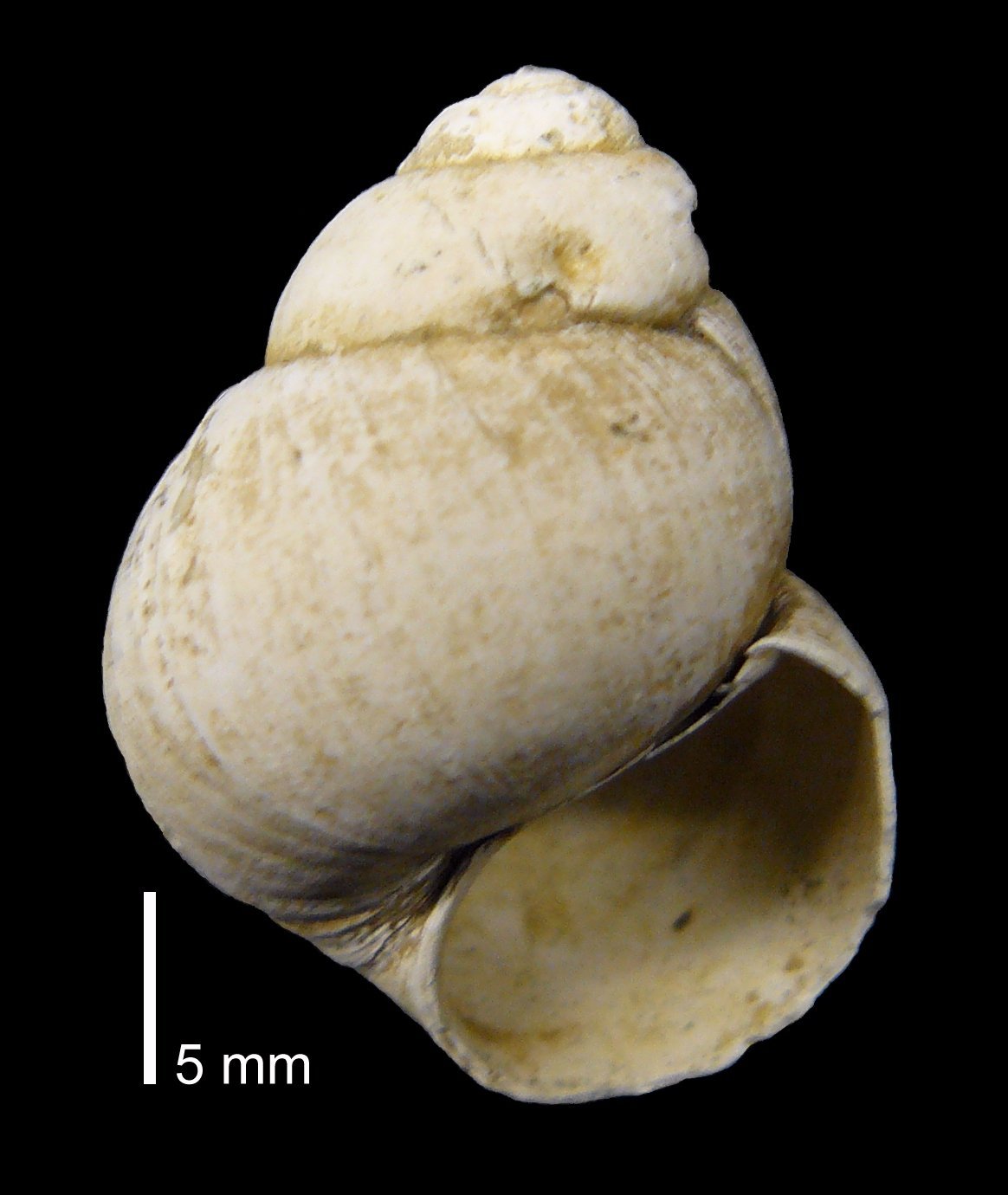 Viviparus diluvianus (Kunth, 1865). Extinct freshwater snail. Age: Late Tiglian (Early Pleistocene), Site: Maalbeek, the Netherlands.